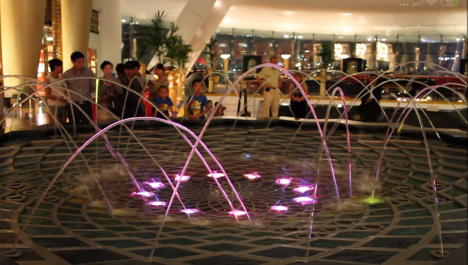 Laminar